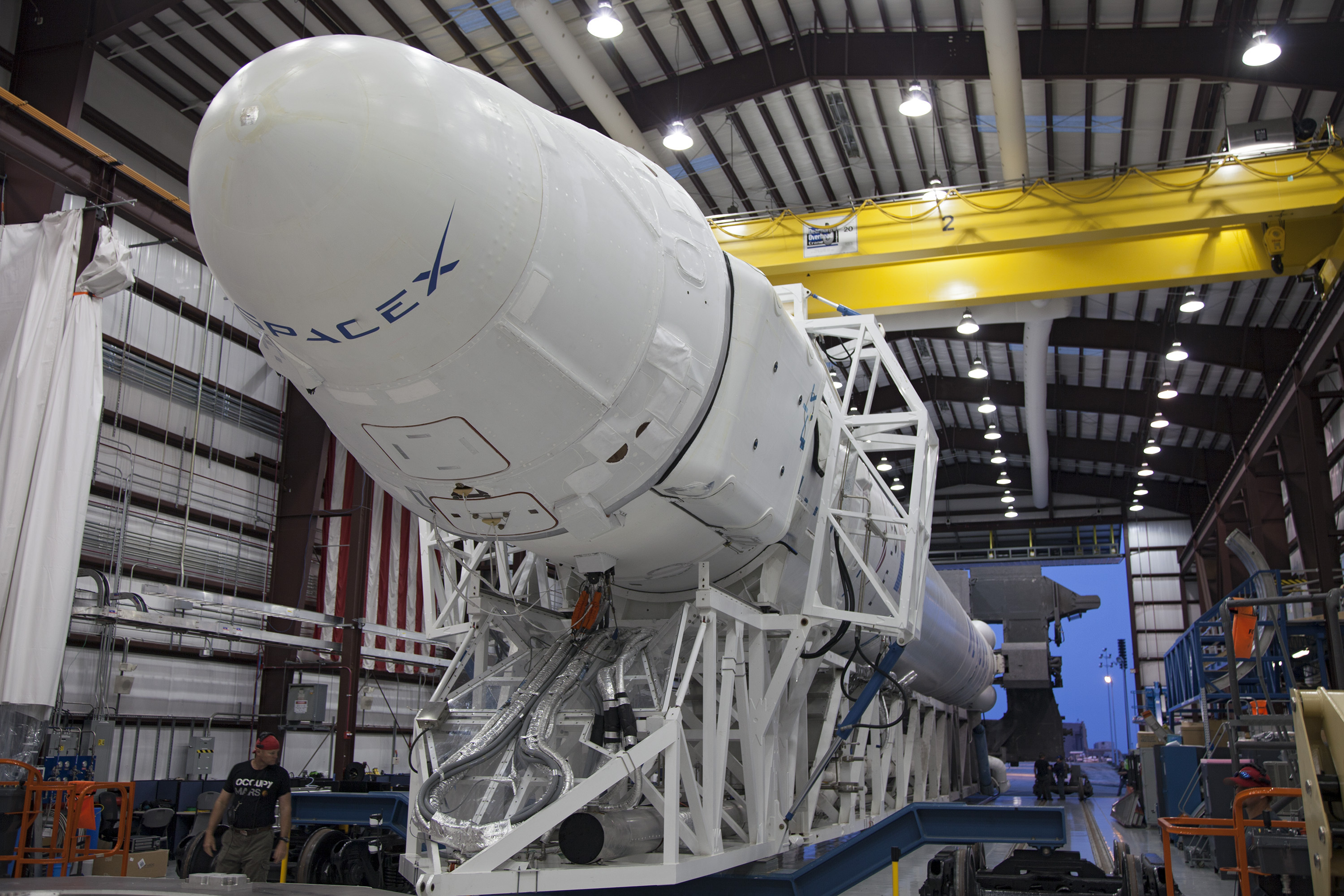 The SpaceX Falcon 9 rocket begins its early morning move out of the company's Falcon Hangar at Launch Complex 40 on Cape Canaveral Air Force Station in Florida. Topped by the Dragon spacecraft, the rocket is rolling to the launch pad for a test firing of its nine Merlin first-stage engines in preparation for the SpaceX 2 launch. Liftoff of the SpaceX Falcon 9 rocket and Dragon spacecraft occurred on March 1, 2013, at 10:10 a.m. EST, from Space Launch Complex-40 at Cape Canaveral Air Force Station, Fla. Dragon made its third trip to the space station. It carried supplies and experiments to the orbiting laboratory. The mission was the second of 12 SpaceX flights contracted by NASA to resupply the space station.